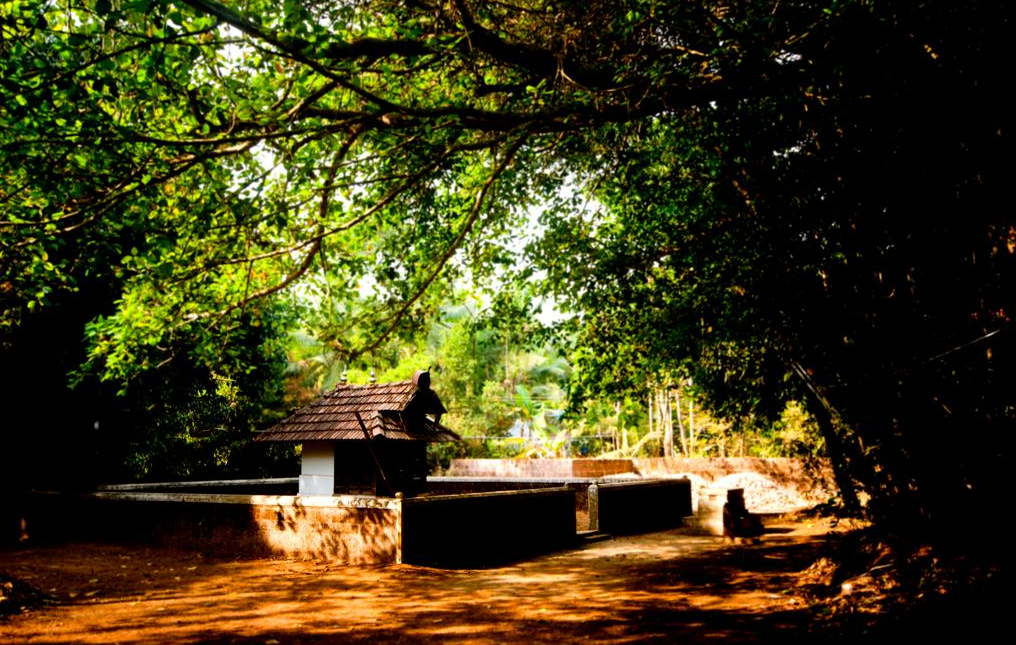 The Entrance of Chamakkav temple , located near Vellur , Payyannur in Kannur